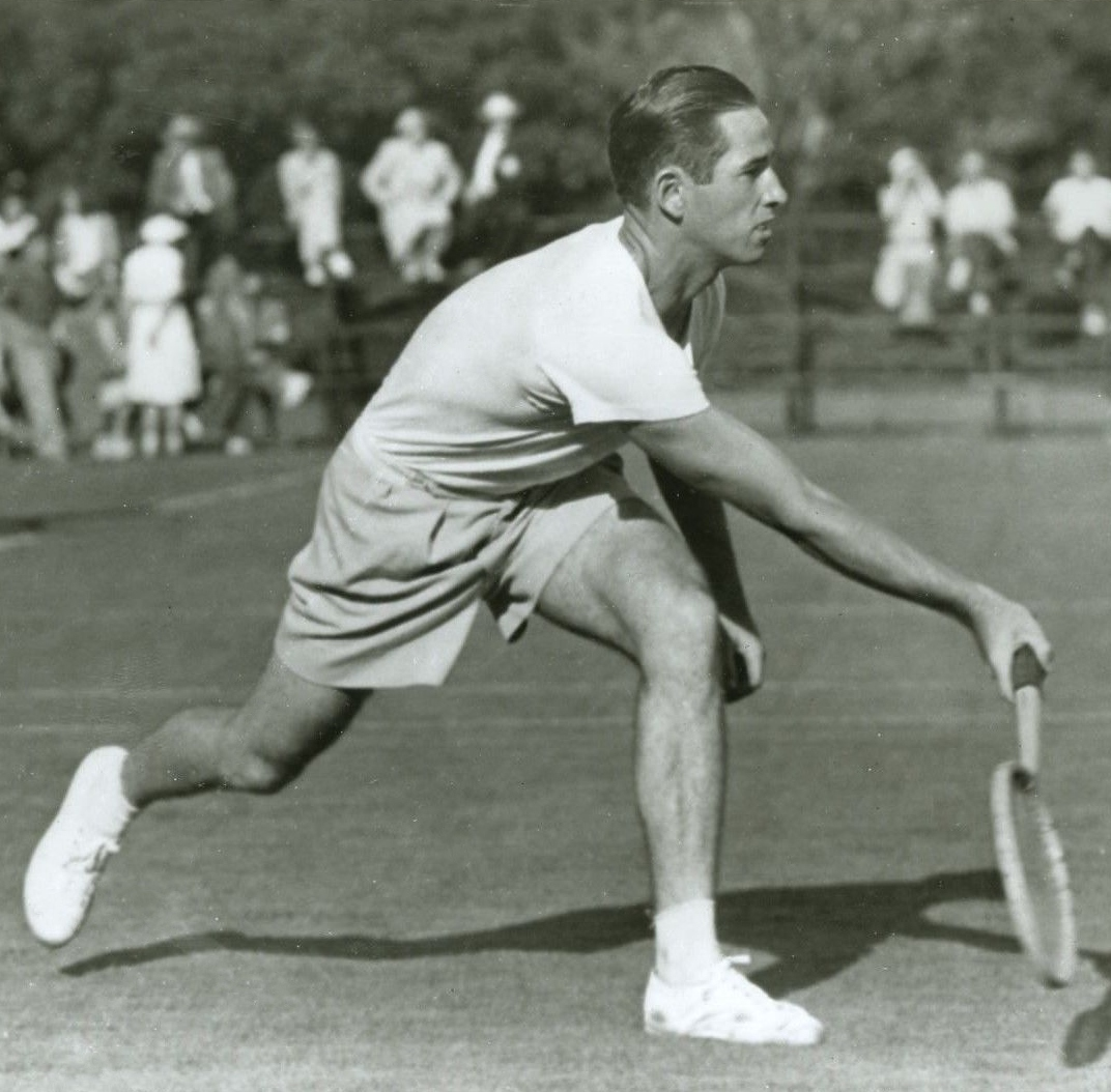 Bobby Riggs circa 1947 Worlds Professional Champion Press Wire Photo Image 1A